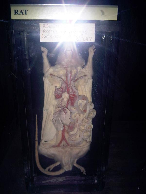 Dissected brown rat or common rat (Rattus norvegicus) in Grant Museum of Zoology, London, England.